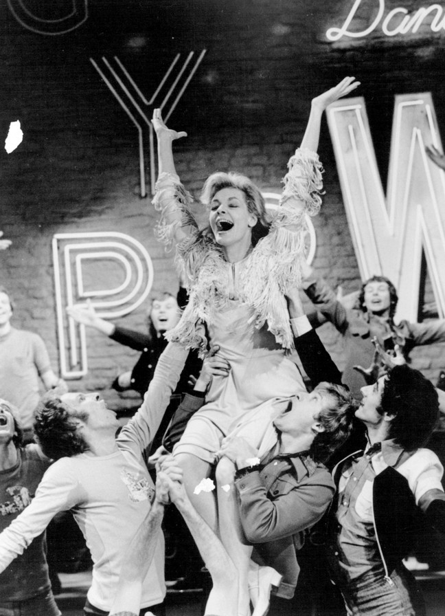 Photo of Lauren Bacall in a television presentation of the Broadway musical Applause. The program was first broadcast in 1973 and re-broadcast in 1974.